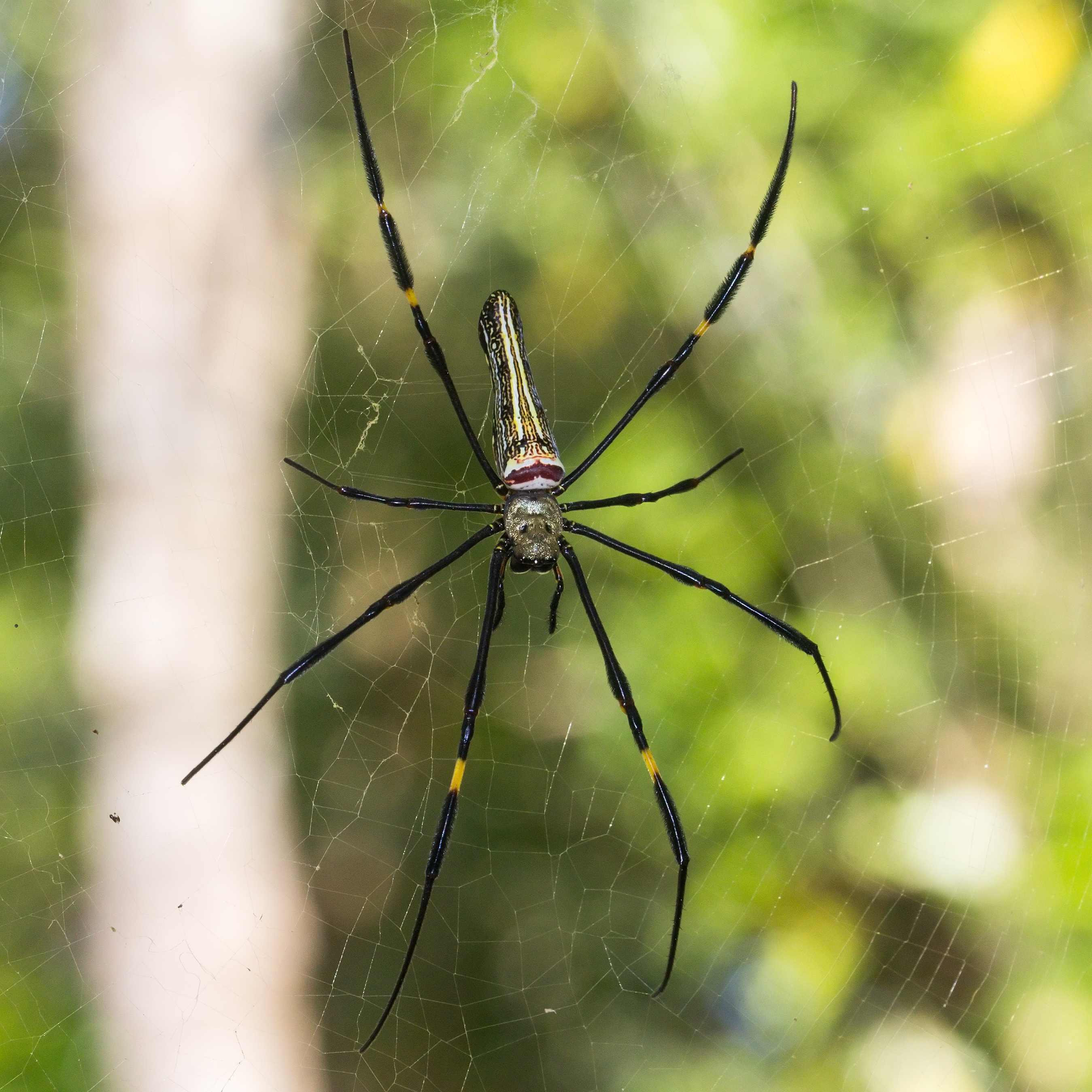 Nephila pilipes female, Bangunjiwo, Bantul 2015-09-19. Legs were about 10-15cm from tip to tip